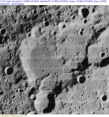 Image LO-IV-190H